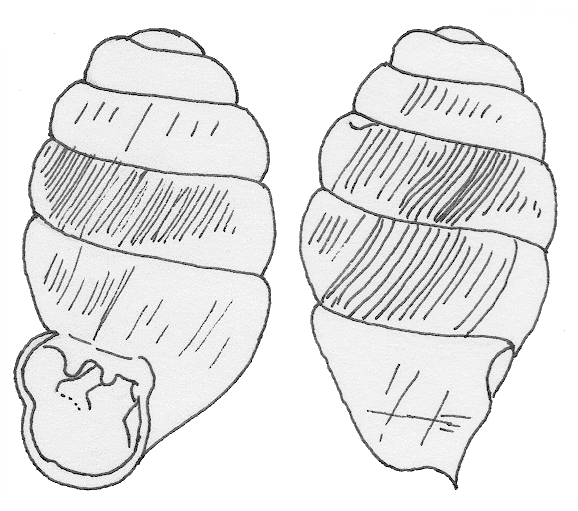 Vertigo angustior - Pulmonate landsnail shell; Holocene deposits outcrop Eben Emael, Jekerdal, Belgium